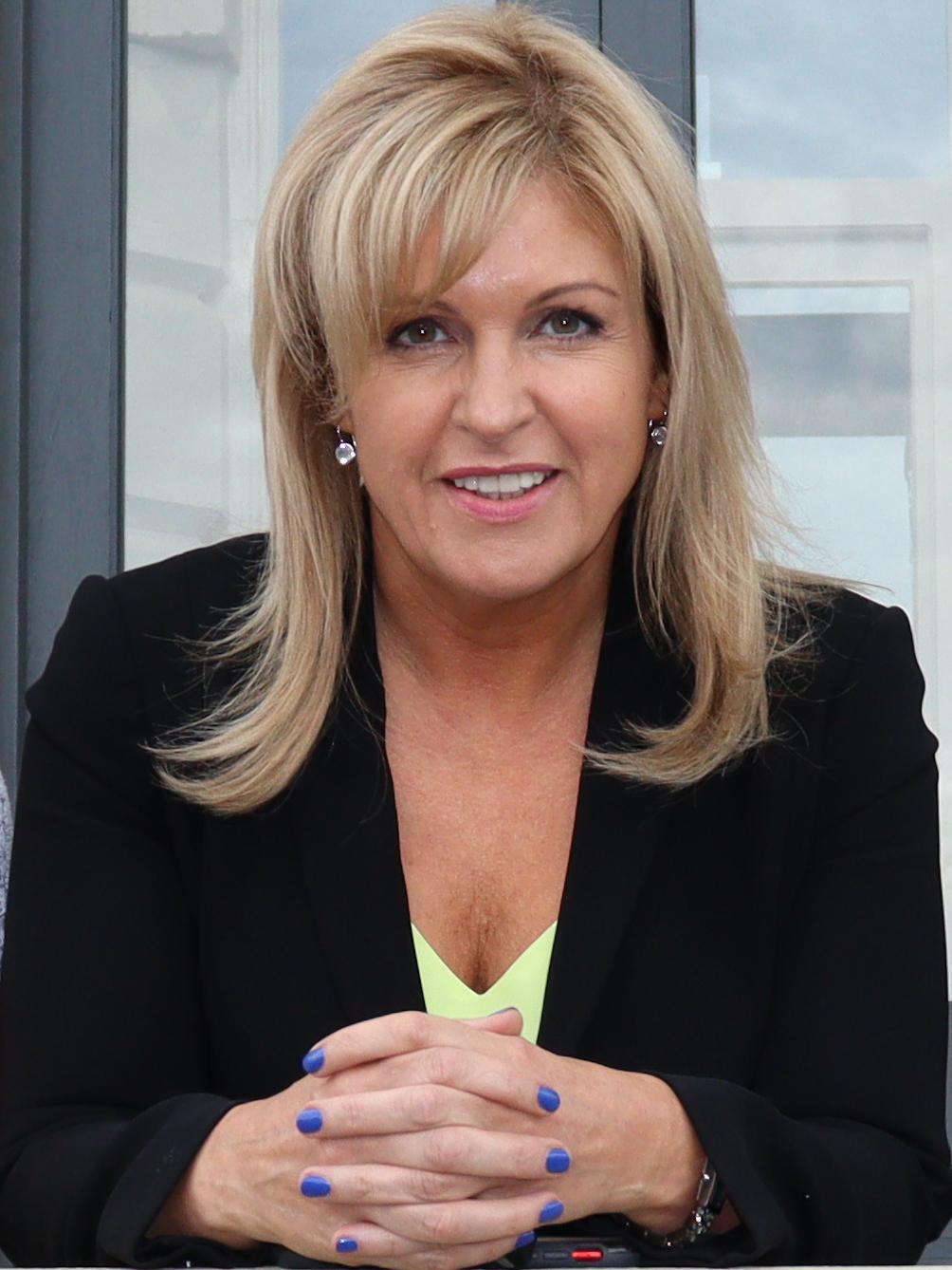 Irish politician Rose Conway-Walsh of Sinn Féin, taken in 2020.